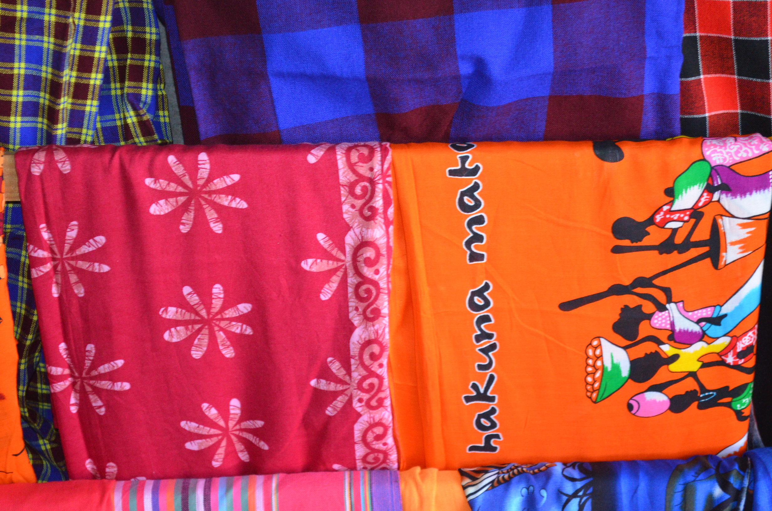 Kangas are used by women in Tanzania as wrappers around their waist at home when doing house chores. Text: "hakuna mat" =? "hakuna matata" (Swahili) = There is no problem. This is an image of Cultural Fashion or Adornment from Tanzania